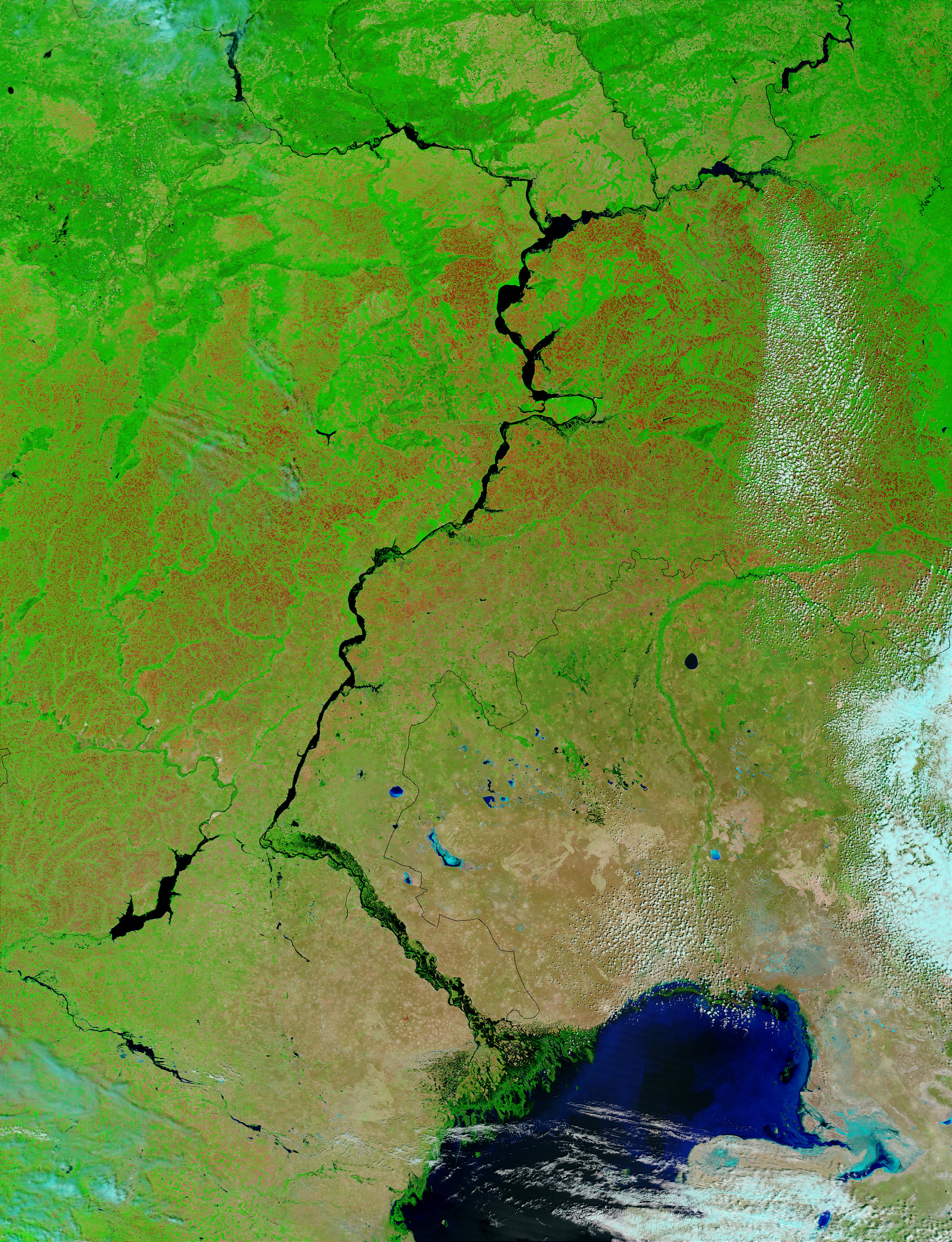 The Volga River, Russia